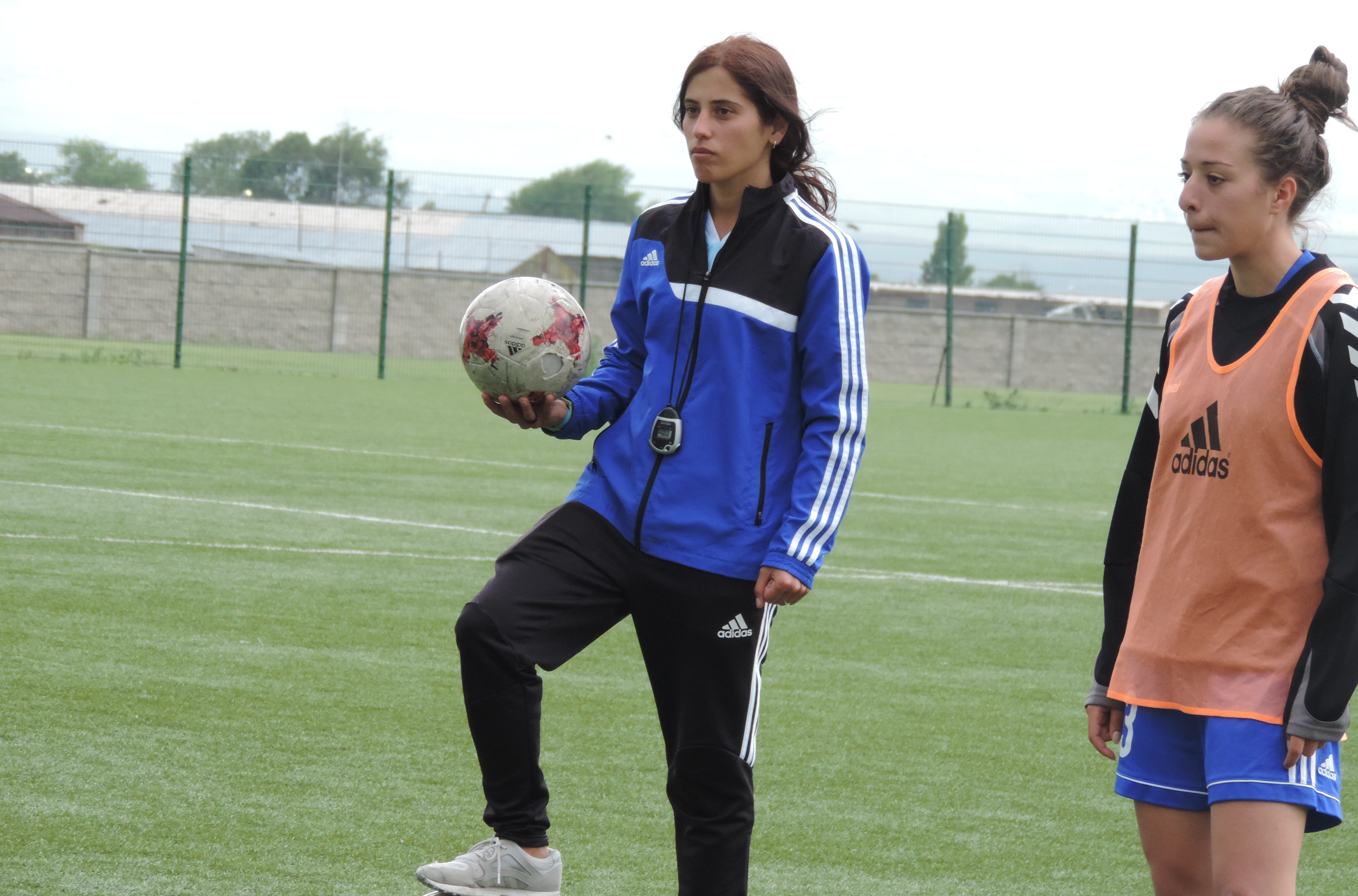 Coaching